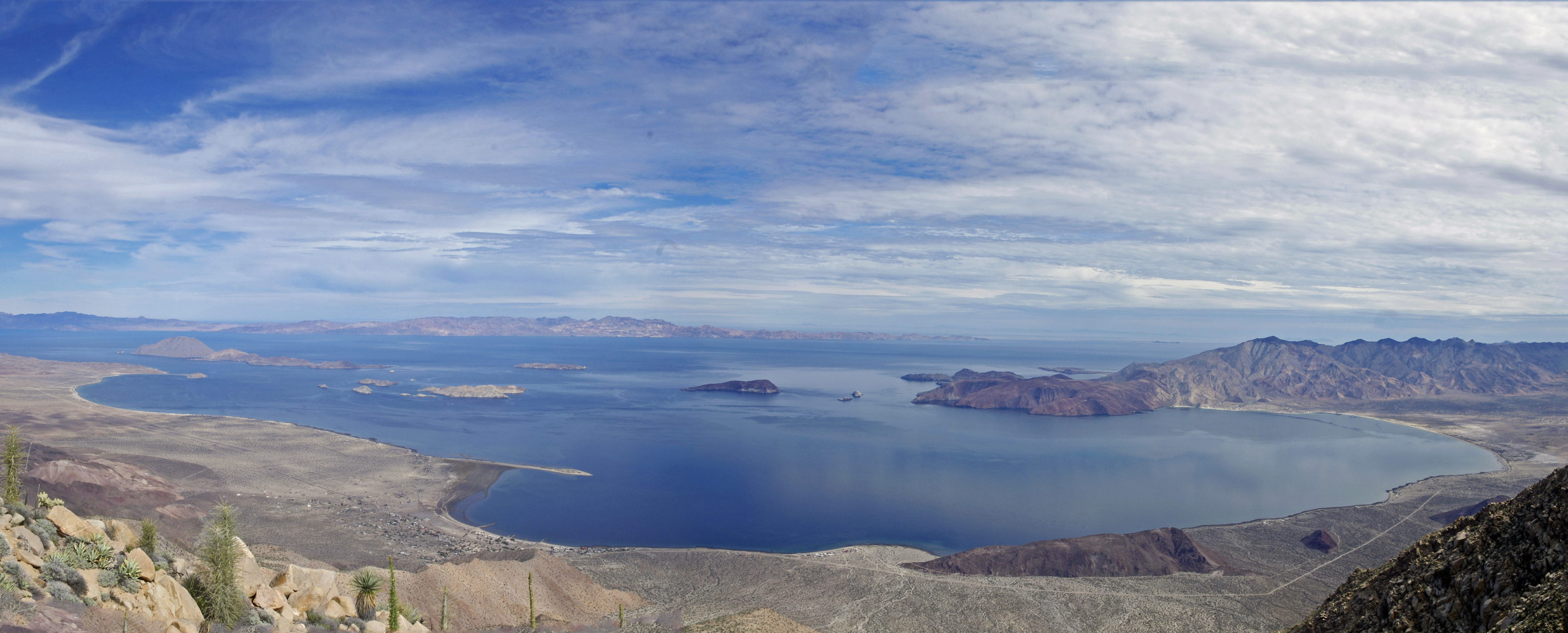 View of Bahia de los Angeles from atop Mikes Mountain to the west of the town.